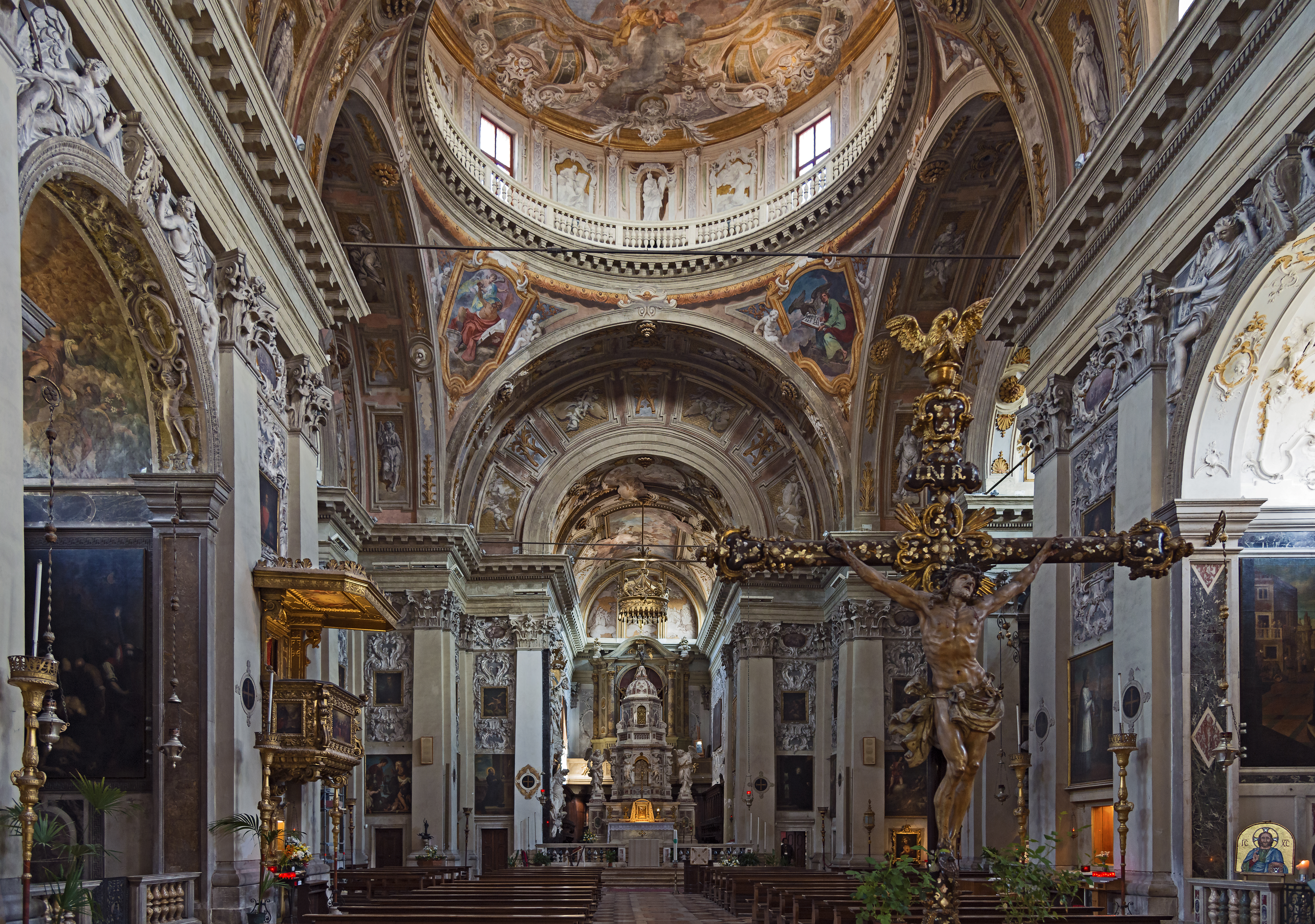 Chiesa di San Nicola da Tolentino in Venice. General view of the interior of the church.